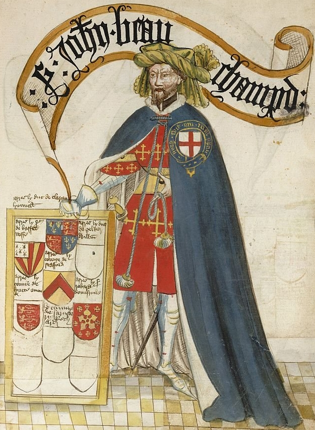 John de Beauchamp KG from the Bruges Garter Book, 1430/1440, BL Stowe 594. He displays the arms of Beauchamp on his tabard, with a crescent sable for difference. Arms on board (successor knights in his stall): (Edmund Horace Fellowes: The Knights of the Garter, 1348-1939. With a complete list of the stall-plates in St. George's chapel; London, Published for the dean and canons of St. George's chapel in Windsor castle by the Society for promoting Christian knowledge, 1939.[1] ) Stall 11 (S. 11): 1348 (10) Sir John Beauchamp (Founder). Afterwards Lord Beauchamp de Warwick. He carried the Standard Royal at the battle of Creçy Present at the surrender of Calais and the battle of Sluys. 1360 (35) Lionel (Plantagenet), styled "of Antwerp," Duke of Clarence, 3rd son of King Edward III. c.1368 (44) Ralph Bassett, 4th Lord Bassett of Drayton. 1390 (81) William, Duke of Gueldres and Juliers (blank shield). 1402 (104) Edmund Stafford, 5th Earl of Stafford. Lord High Constable. Killed at the Battle of Shrewsbury. 1403 (106) Edmund Holland, 4th Earl of Kent. Admiral of the West and North. 1408 (116) Sir Robert Umfraville. Mainly occupied in Scottish affairs. Present at the burning of Peebles. 1438 (152) Richard Nevill, 5th Earl of Salisbury (blank shield).